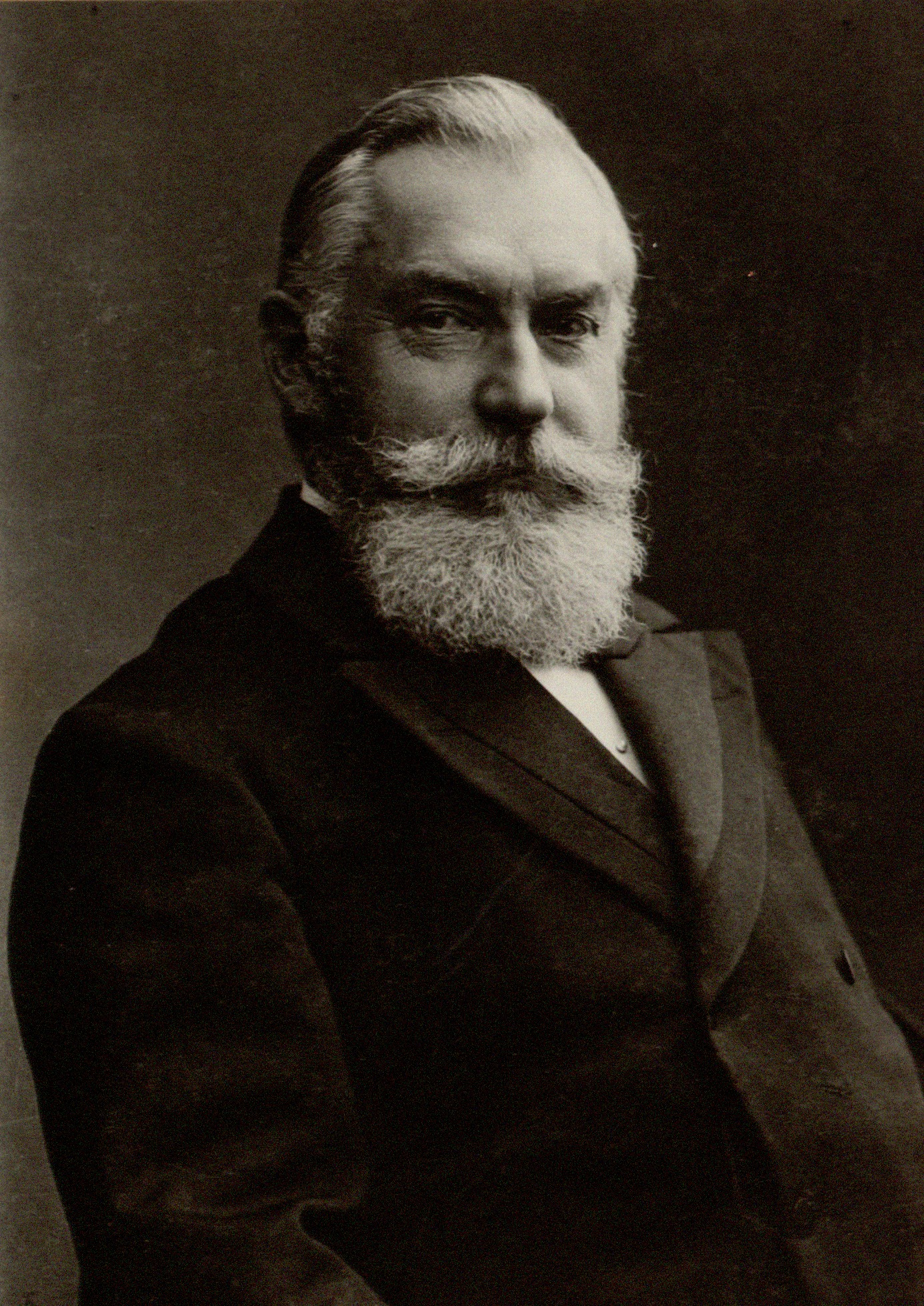 Vincenz Czerny, Chirurg, 1876–1906 Professor in Heidelberg, bis 1916 Honorarprofessor